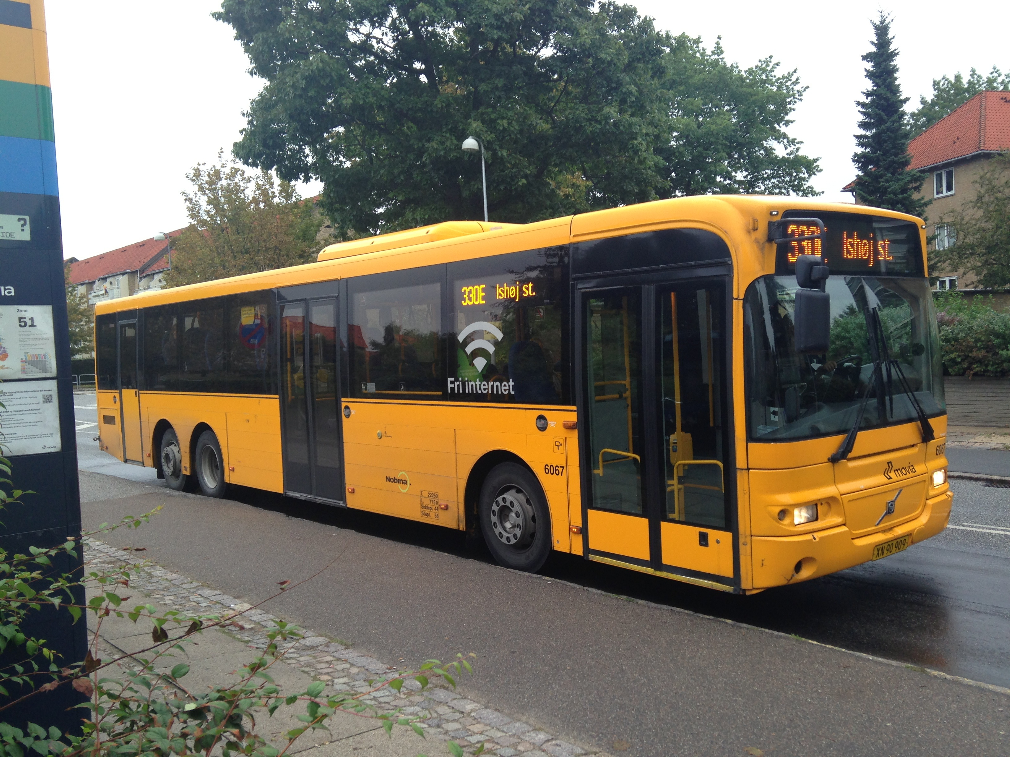 Nobina Volvo B12BLE bus as Movia bus line 330E at Sorgenfrigårdsvej near Carlshøjvej, Kongens Lyngby, Copenhagen, Denmark.